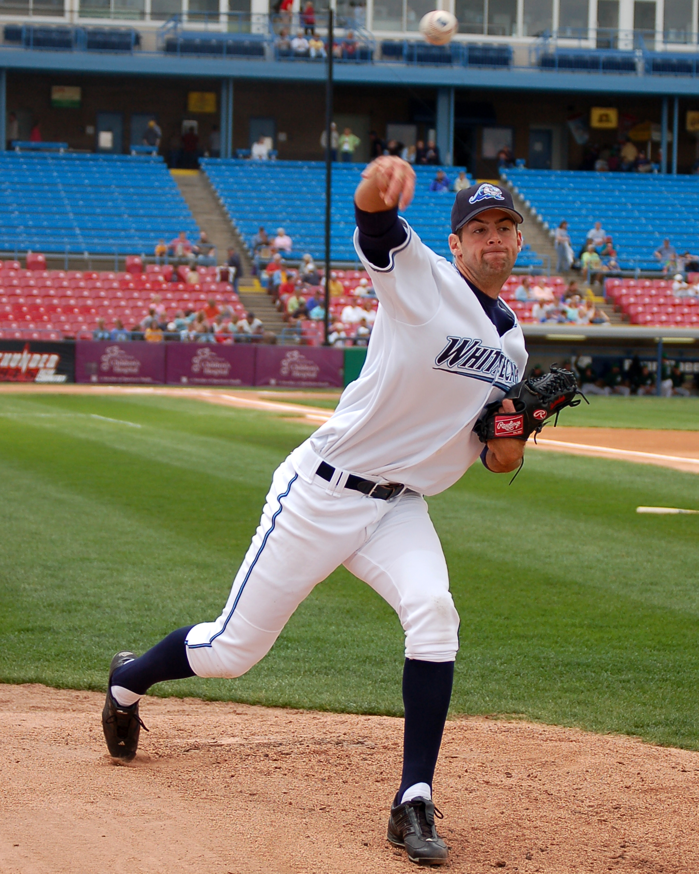 Burke Badenhop while pitching for the West Michigan Whitecaps in 2006